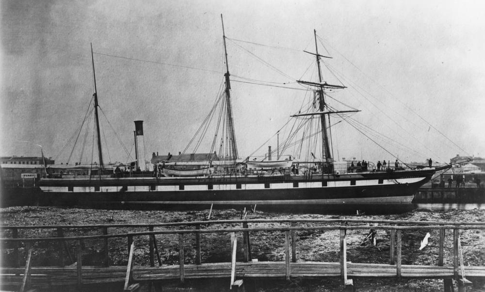 Gothenburg (Ship) docked at a wharf.